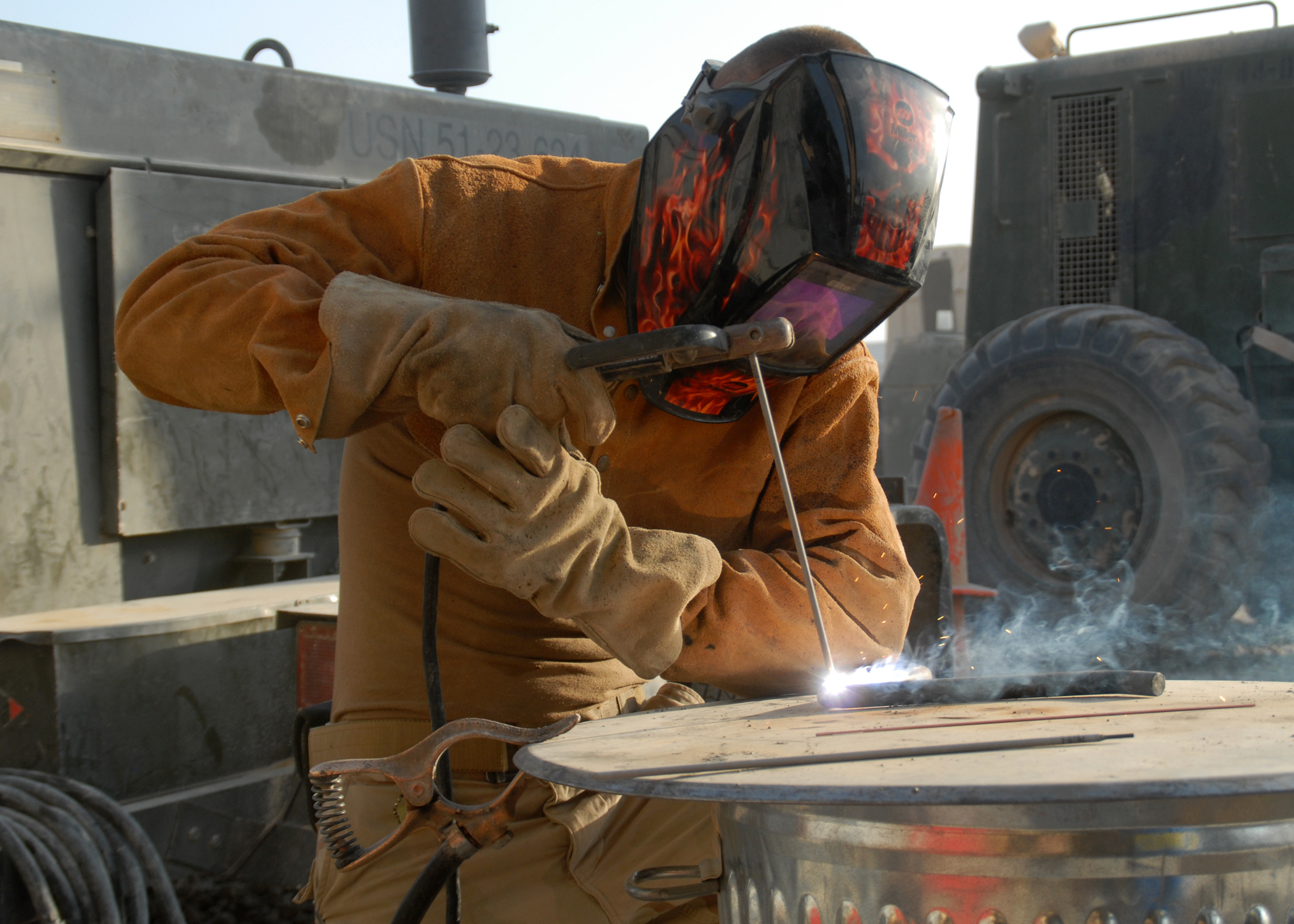 HELMAND PROVINCE, Afghanistan (Oct. 31, 2009) Steelworker Constructionman Tanner Casto, from Litchfield, Ariz. assigned to Naval Mobile Construction Battalion (NMCB) 74, uses an arc welder to make a triceps pull-down bar for the Camp Natasha gym. (U.S. Navy photo by Mass Communication Specialist 1st Class Ryan G. Wilber/Released)